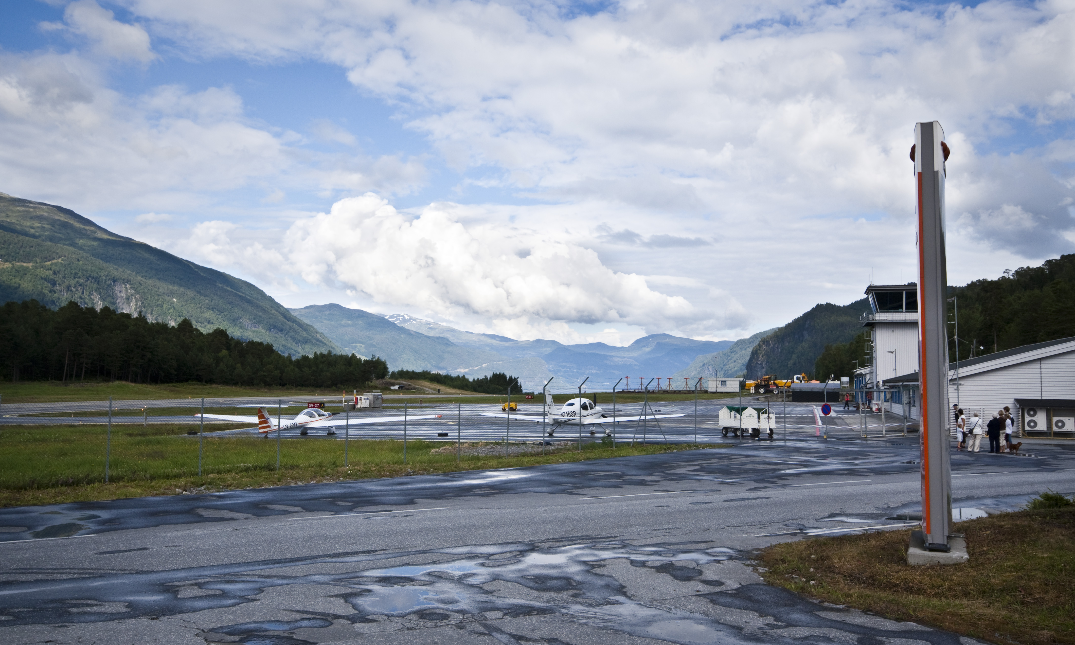 Sandane Aiport, Anda